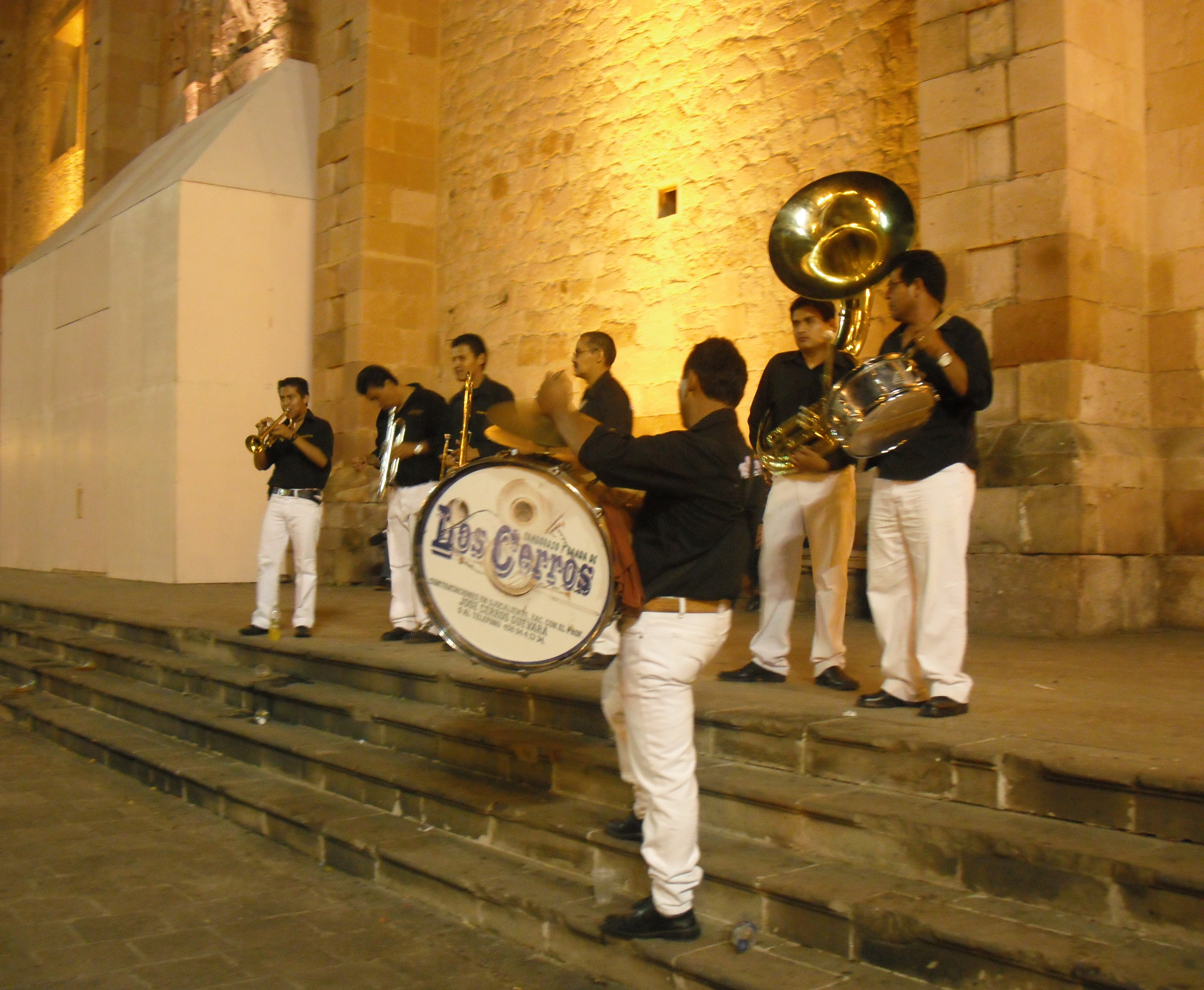 Brass band in the Plaza de Armas, Zacatecas